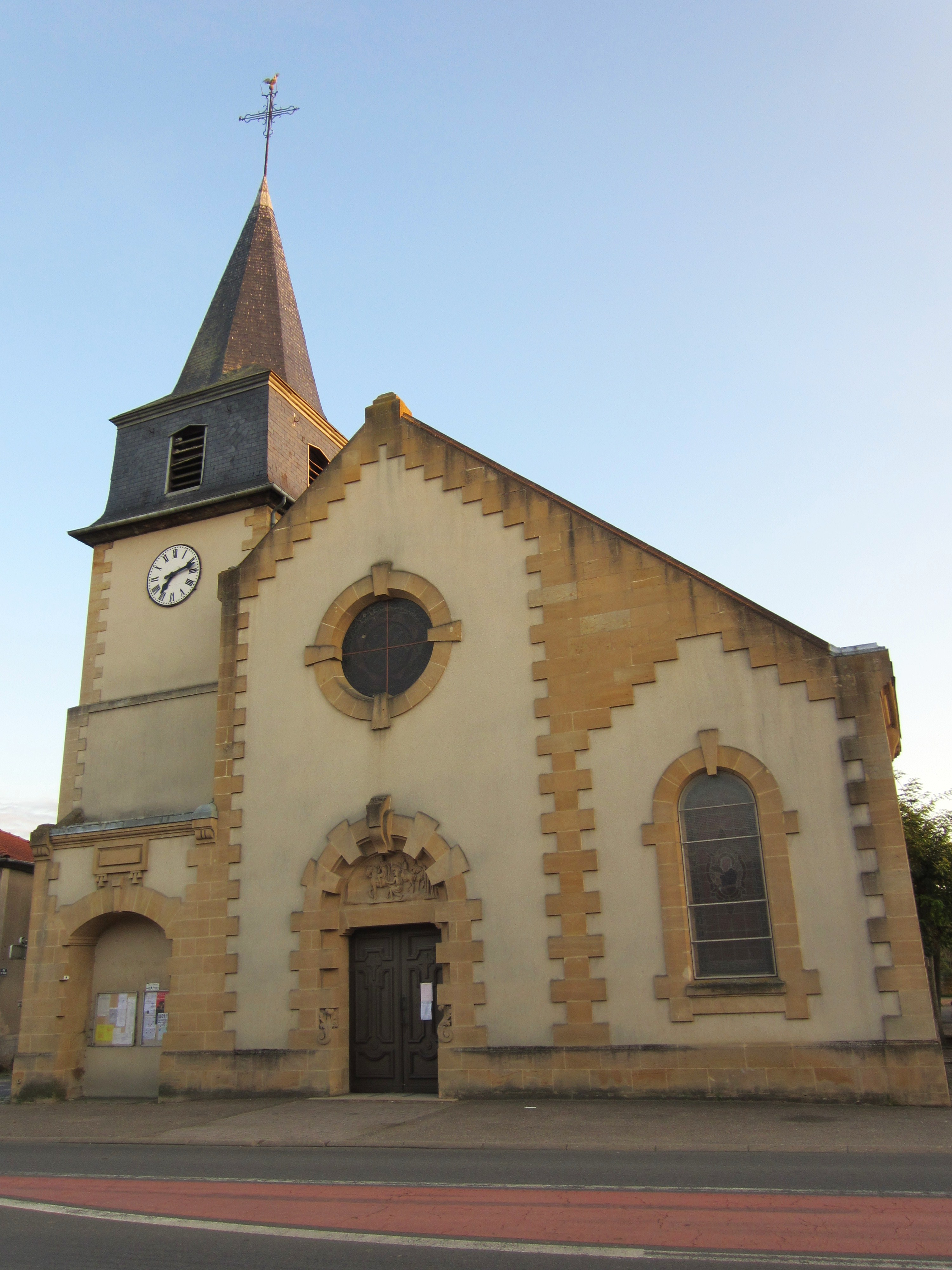 Description eglise Jeandelize Date23 September 2011Sourcemon appareil photoAuthorAimelaimePermission (Reusing this file) eglise Jeandelize